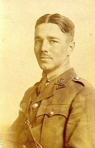 Le célèbre poète est tombé à Ors en 1918. Une salle du château lui est dédiée.